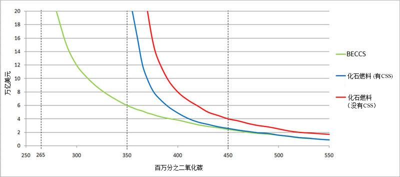 Graph representing estimated cost involved in reaching atmospheric carbon dioxide concentration levels of 265 ppm, 350 ppm and 450 ppm targets. Graph is referenced from: Azar, C., Lindgren, K., Larson, E.D. and Möllersten, K.: (2005) “Carbon capture and storage from fossil fuels and biomass – Costs and potential role in stabilising the atmosphere”, Climatic Change, 74, 47-79